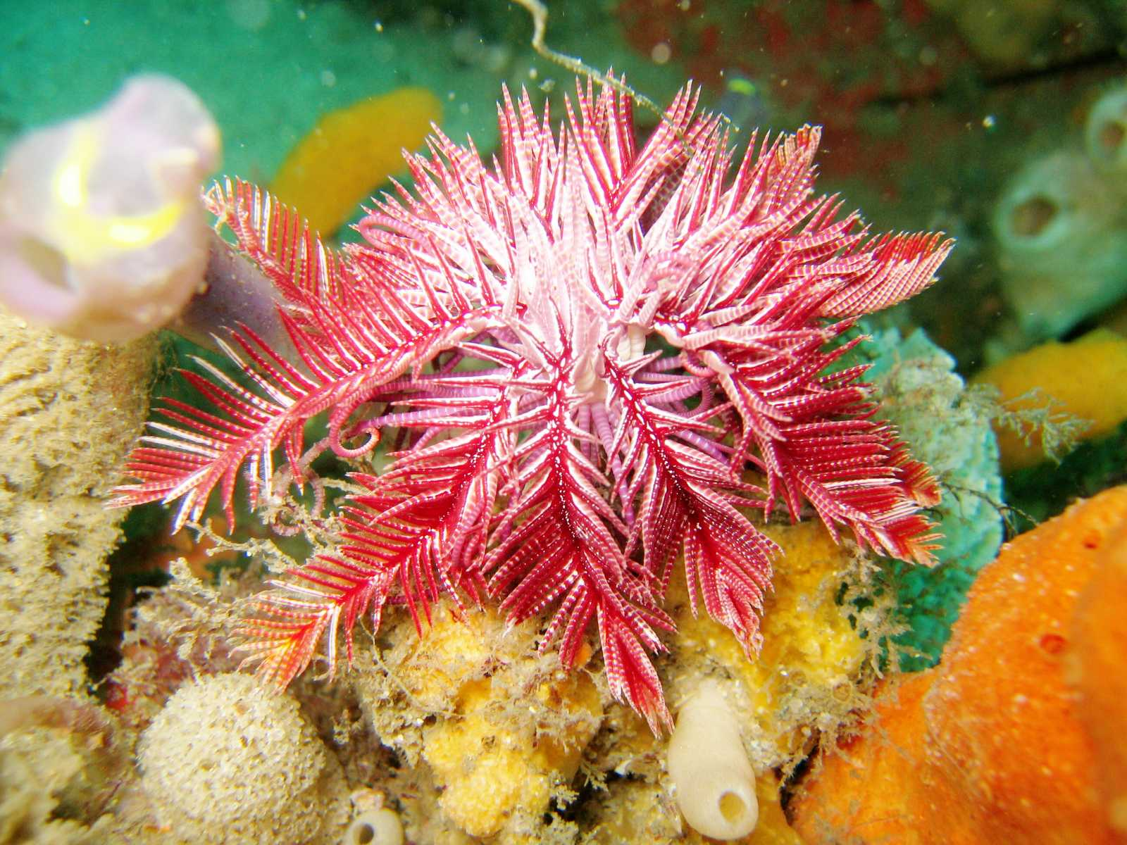 A Passion Flower feather star (Ptilometra australis), a modern crinoid; Halifax Point, Port Stephens, Australia